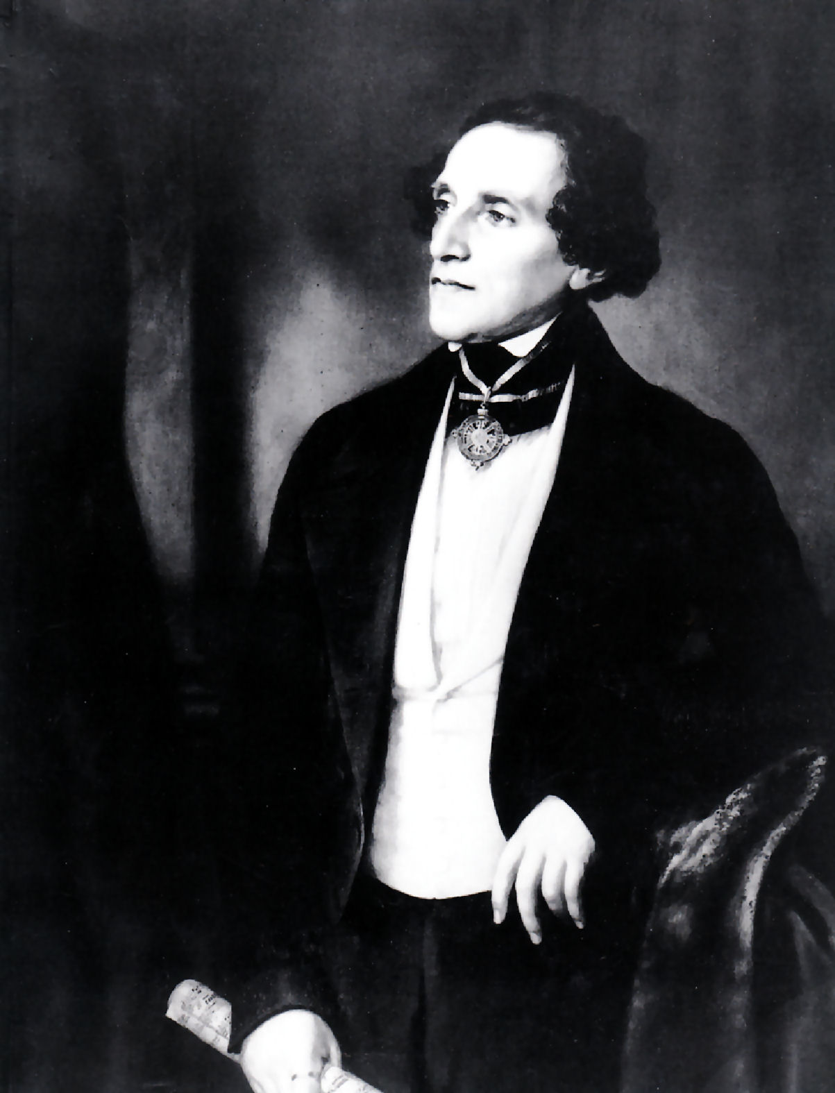 Portrait of Meyerbeer by Karl Begas, commissioned by King Friedrich Wilhelm IV of Prussia. The composer is wearing the insignia of the Ordre pour le Mérite and holding the manuscript of the Coronation March from Le Prophète (painted 22 Feb.-June 1851). The original has been missing since World War II.